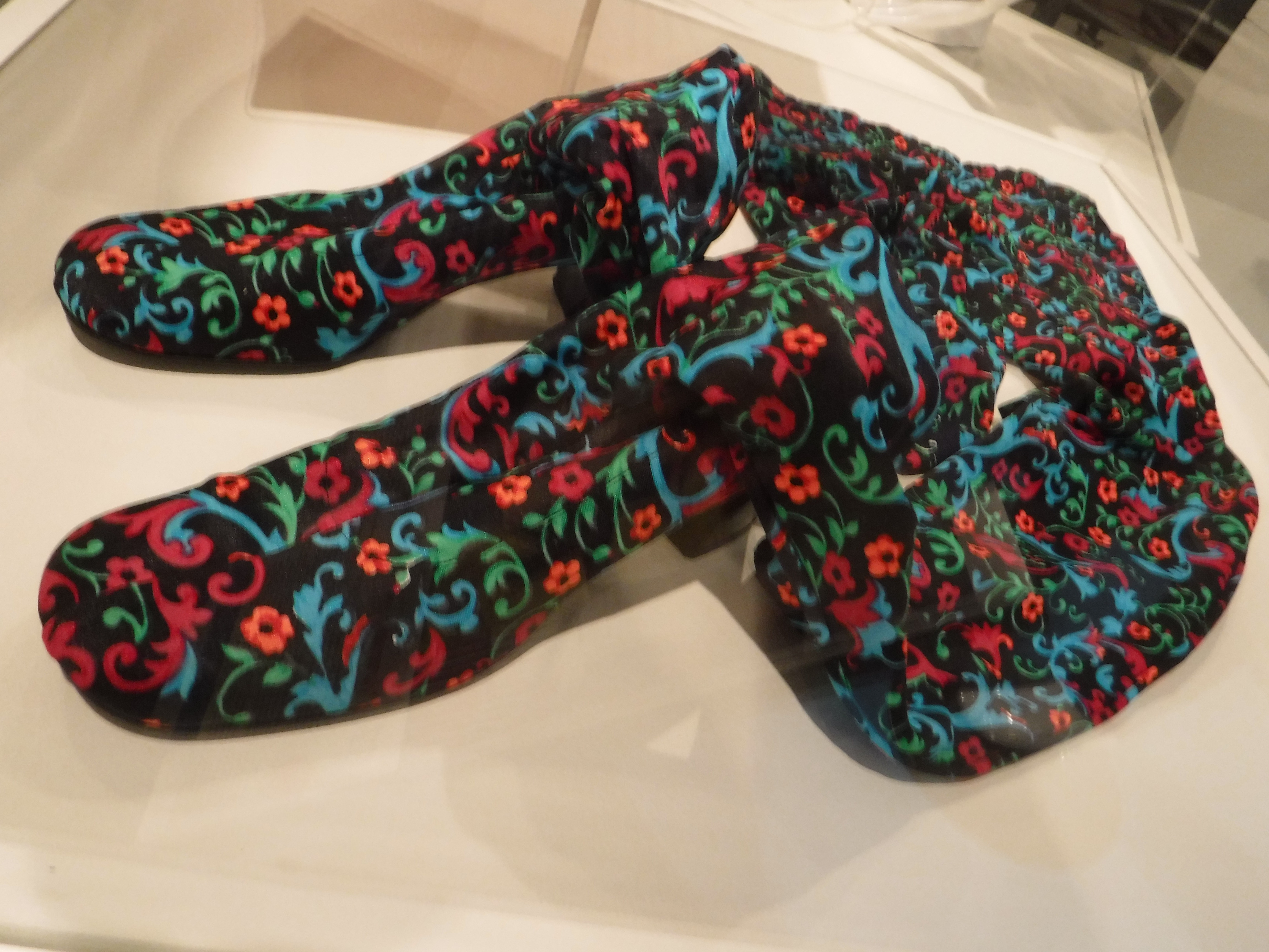 Pan-T-Boots, displayed as part of the museum exhibition Second Skin: The Science of Stretch at the Chemical Heritage Foundation, on view from November 4, 2016 to May 13, 2017. Pan-T-Boots were designed in 1971 by California entrepreneur Suzanne Garfield. They were, in effect, a combination of a pair of fabric tights with "feet" which were matching fabric boots.